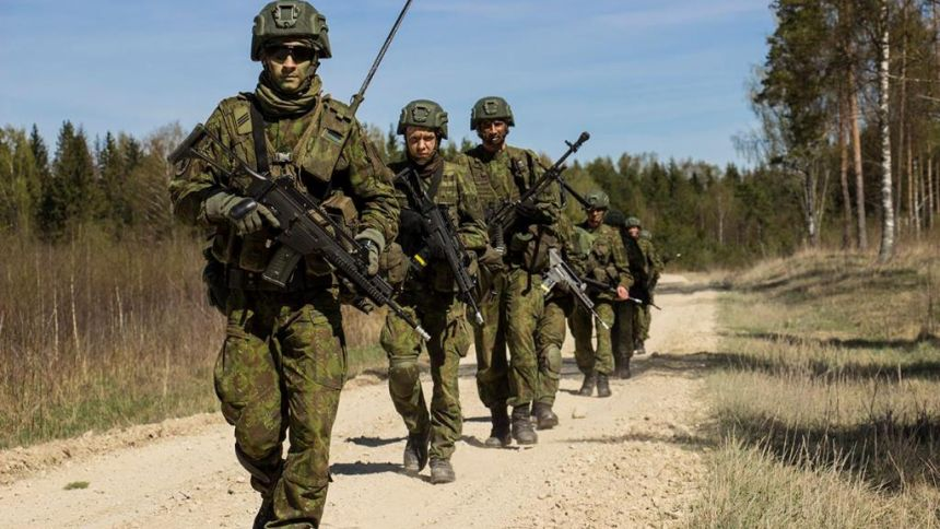 Lithuanian soldiers during exercises